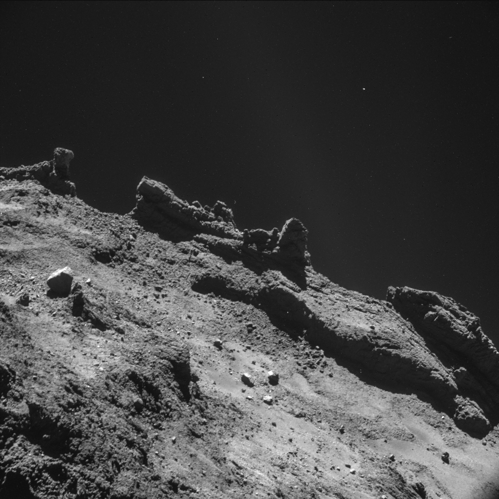 ESA’s comet-chasing Rosetta mission spent much of the second half of October orbiting Comet 67P/Churyumov–Gerasimenko at less than 10 km from its surface. This selection of previously unpublished ‘beauty shots’, taken by Rosetta’s navigation camera, presents the varied and dramatic terrain of this mysterious world from this close orbit phase of the mission. Some light contrast enhancements have been made to emphasise certain features and to bring out features in the shadowed areas. In reality, the comet is extremely dark -– blacker than coal. The images, taken in black-and-white, are grey-scaled according to the relative brightness of the features observed, which depends on local illumination conditions, surface characteristics and composition of the given area. Some slight vignetting can also be seen in the corners of some images.